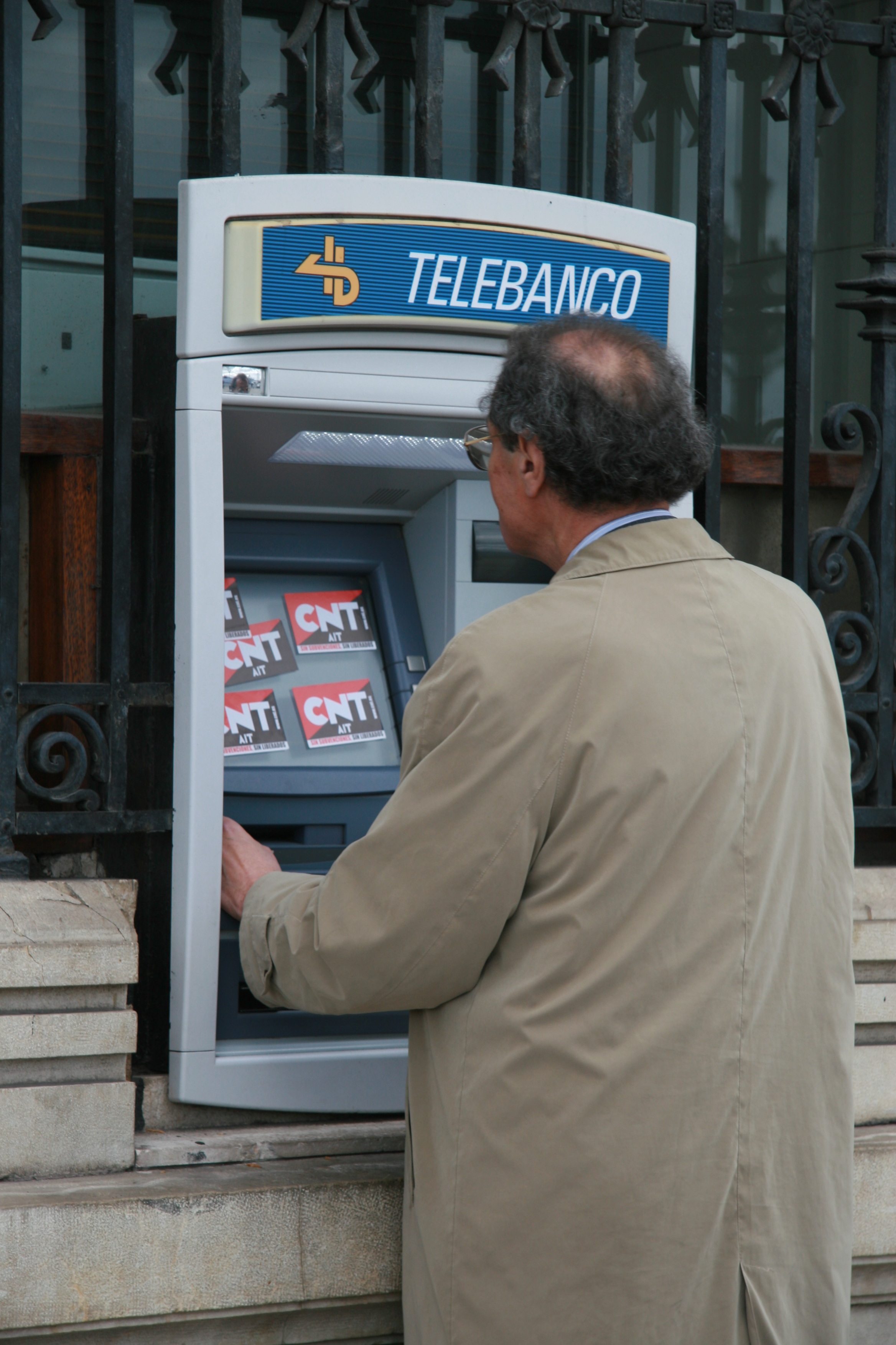 CNT-AIT boycotts Santander Bank ATM.